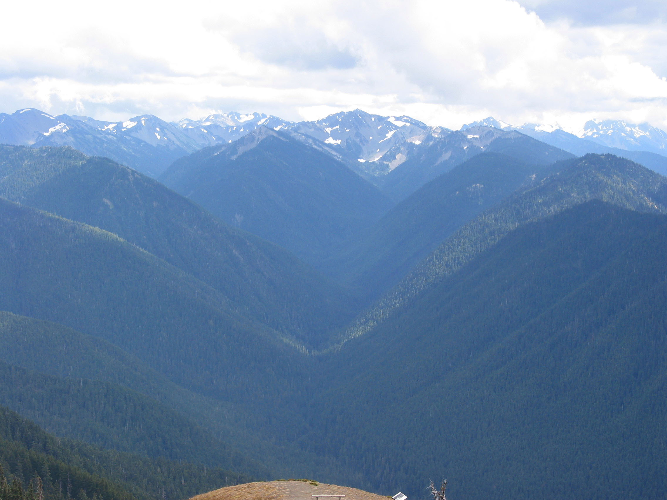 Vista from Hurricane Ridge, Olympic Mountains, Washington